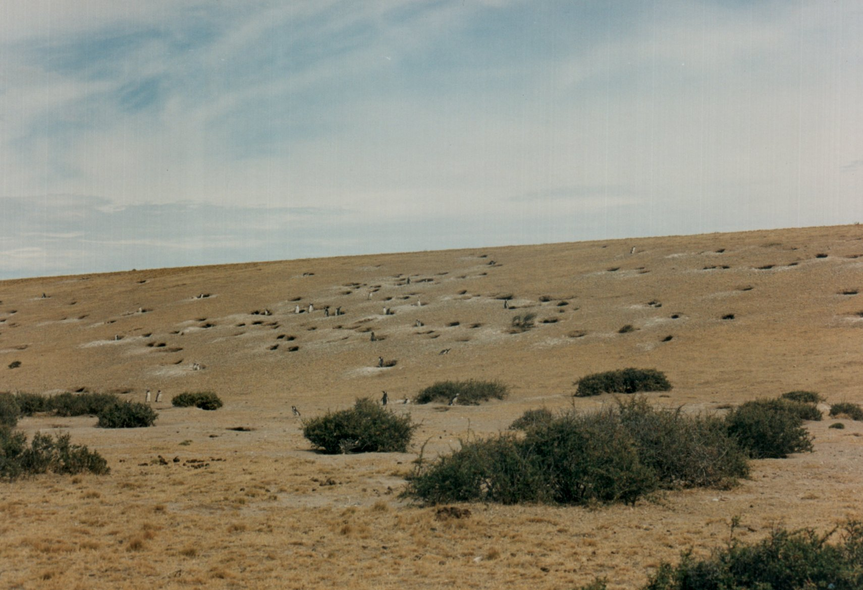 Penguins in Punta Medanosa (Santa Cruz, Argentina)